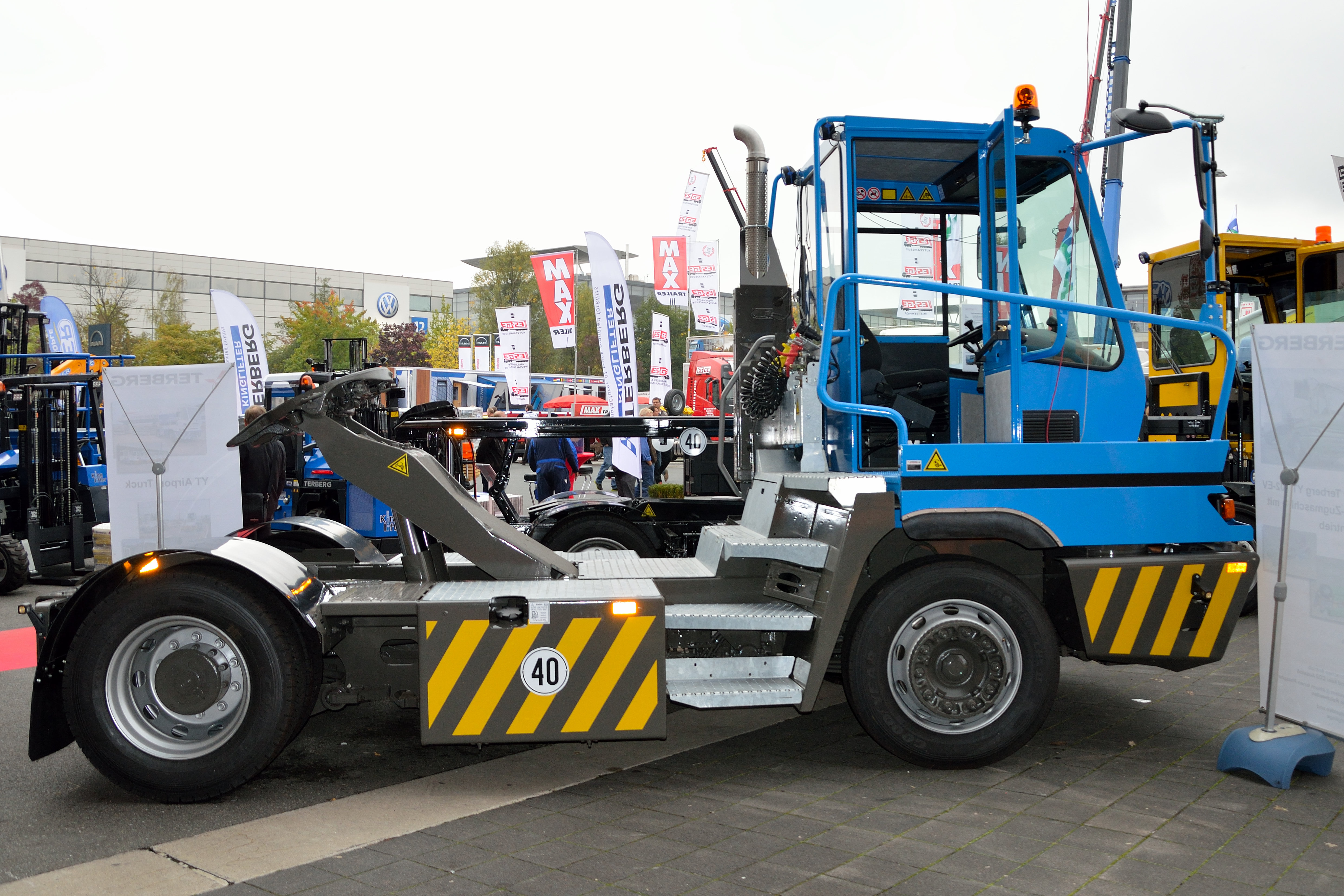 2014er model of terminal tractor Terberg YT 182. Engine: Cummins ISB6.7E5-205 Euro 5. Transmission: Allisson 3000 Automatic. Wheelbase: 3.300 millimetre. Fuel tank: 200 Ltr. Diesel. The number 40 on the side of the vehicle indicates the maximum speed. Photo taken at IAA 2014.